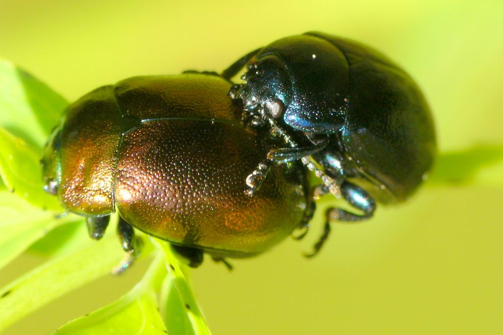 Chrysolina varians